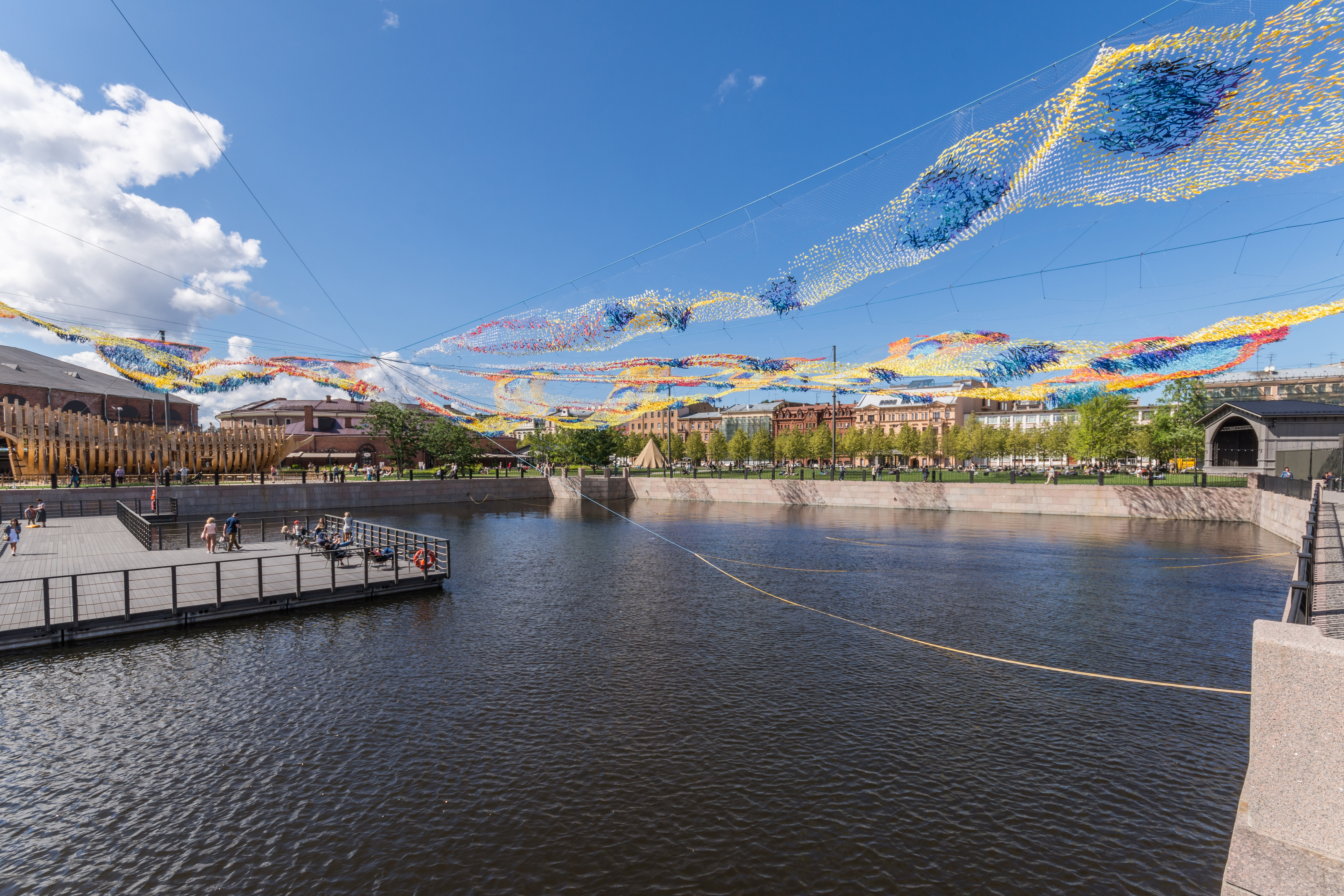 New Holland Island in Saint Petersburg